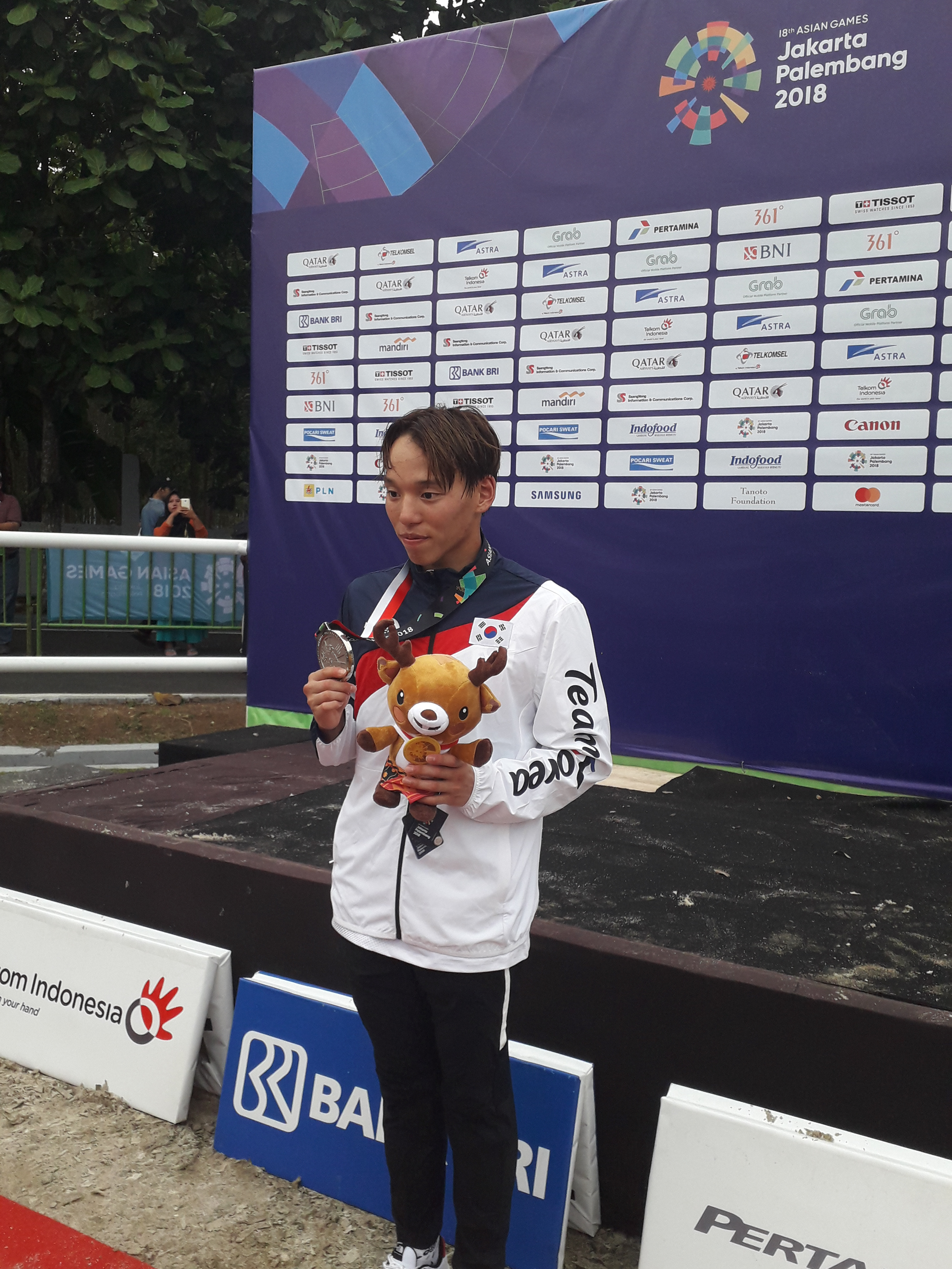 Lee Ji-hun, 22 y.o. win silver medal at the Mens Single Modern Pentathlon Asian Games 2018, held on Sept 1st, 2018 at Adria Pratama Mulya (APM) Equestrian Centre, Tigaraksa, Banten, Indonesia.